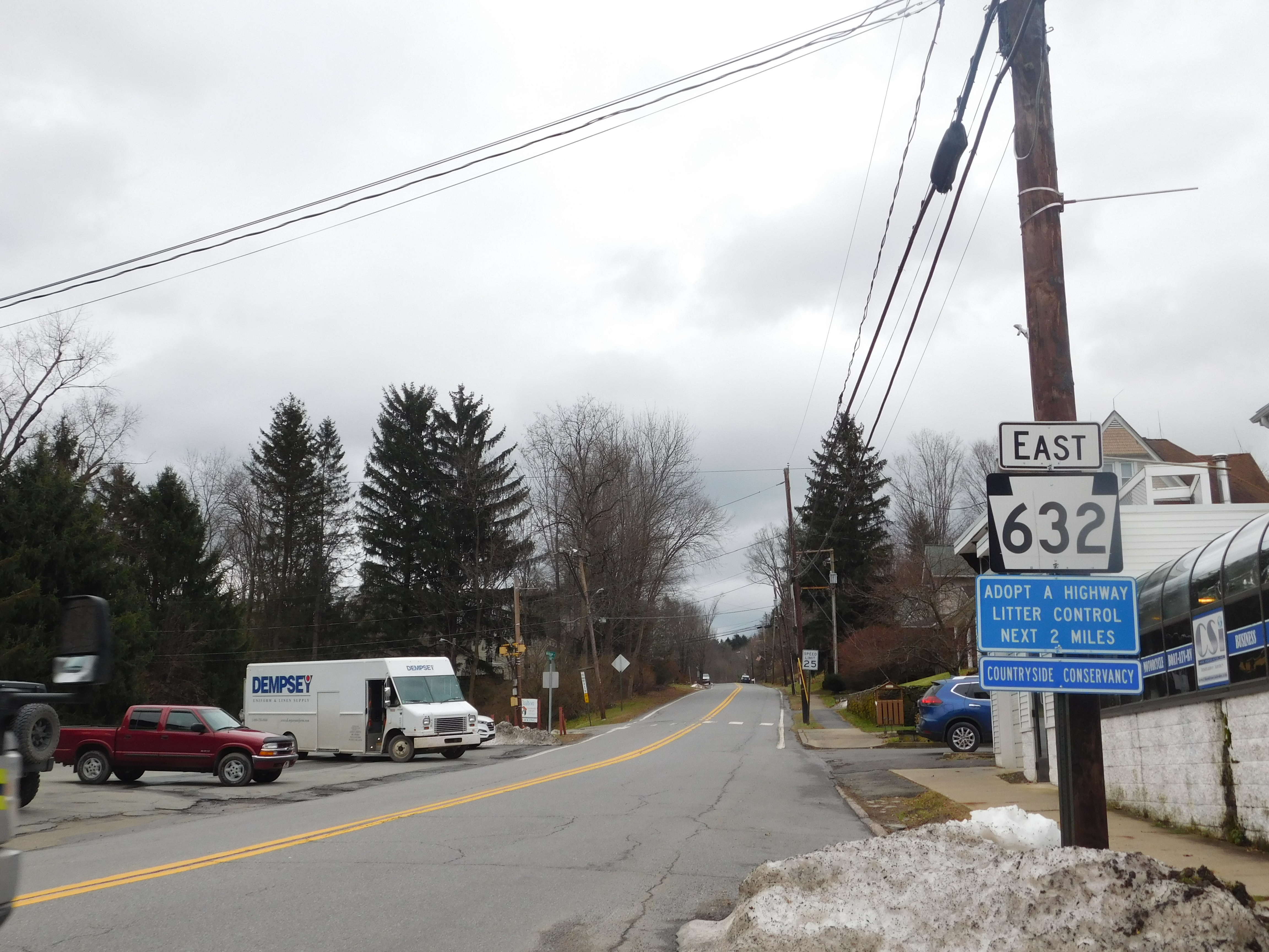 Pennsylvania Route 632 eastbound in Dalton, Pennsylvania.